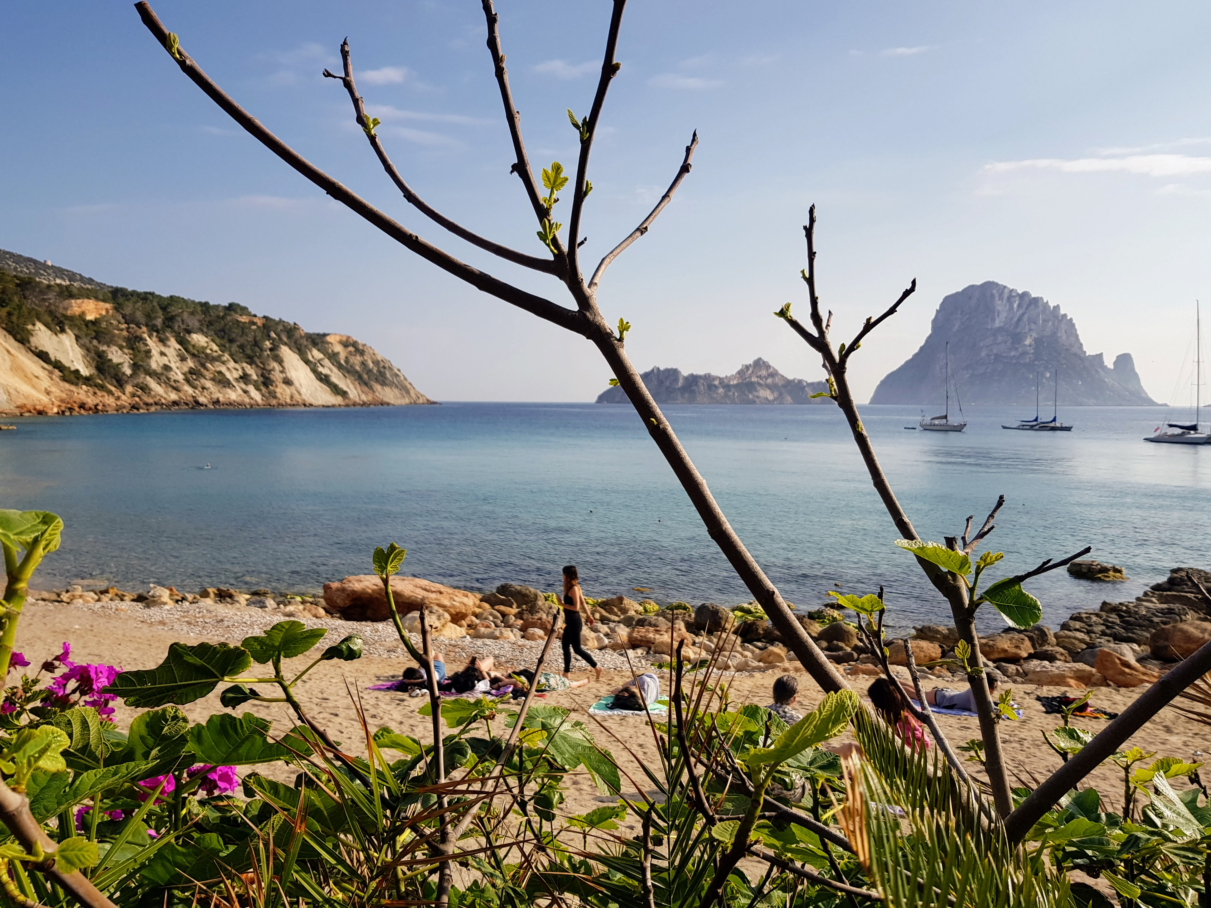 View with flowers from Cala D'hort of Es Vedrà